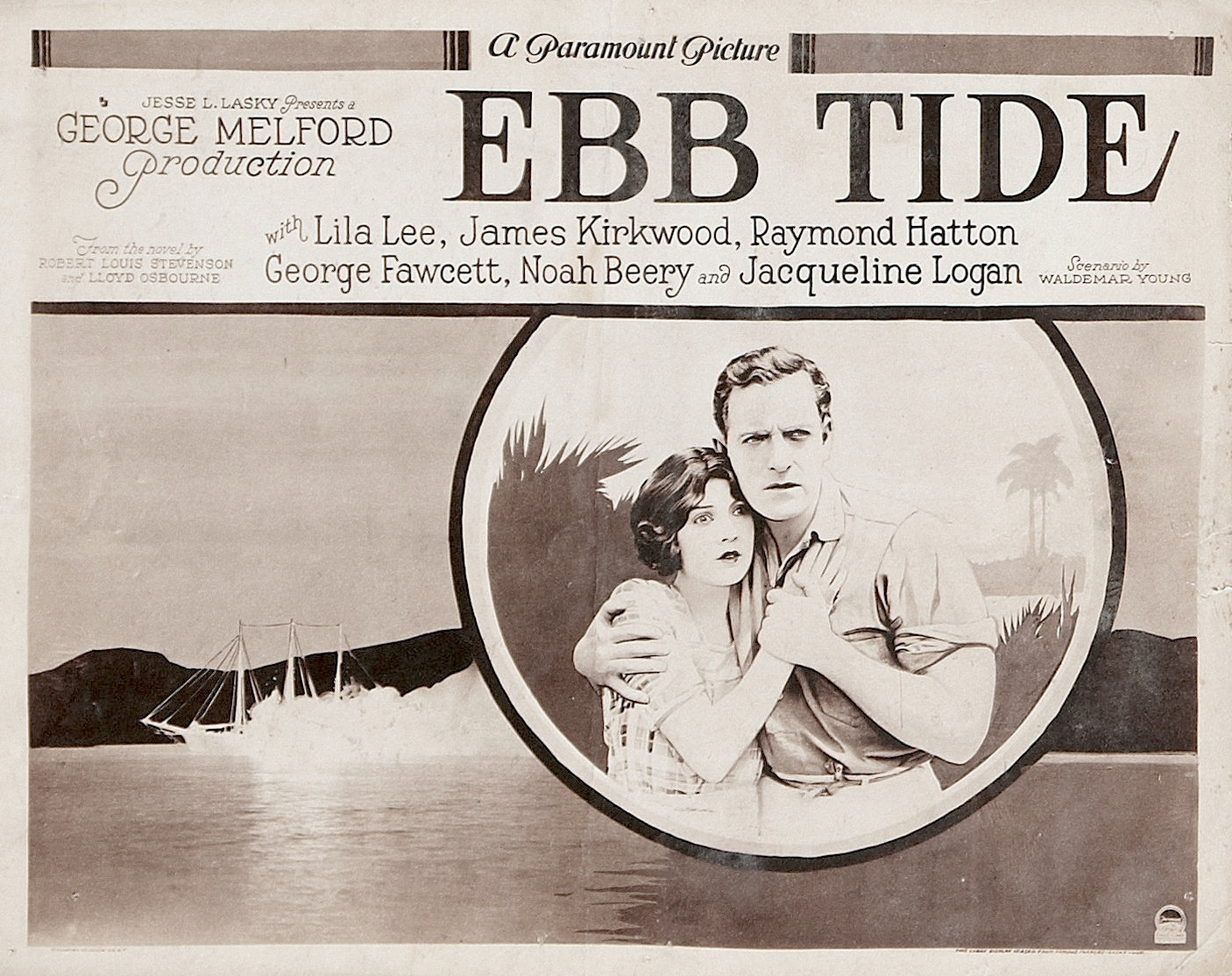 Ebb Tide is a 1922 silent film adventure produced by Famous Players-Lasky and distributed by Paramount Pictures. This is a lobby card for the film.